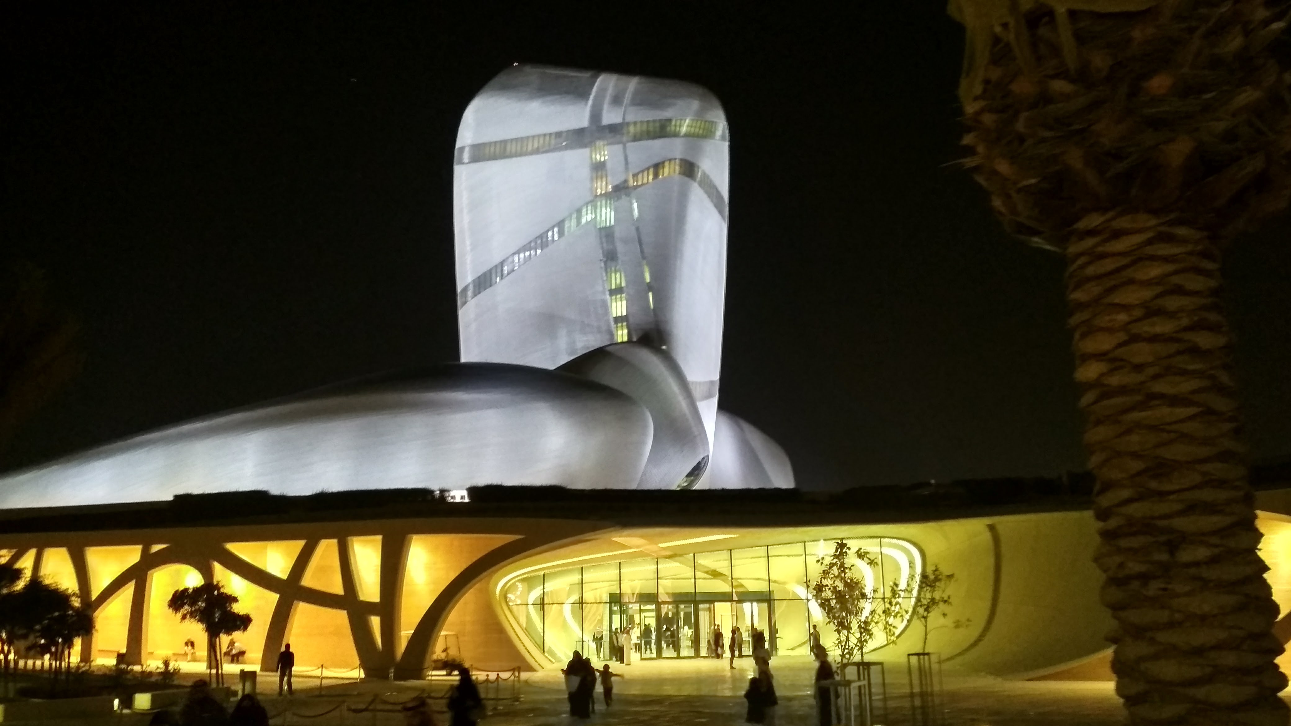 King Abdulaziz Center for World Culture facade at night